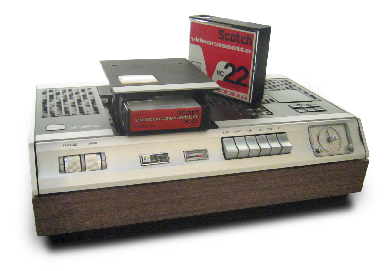 N1500 VCR